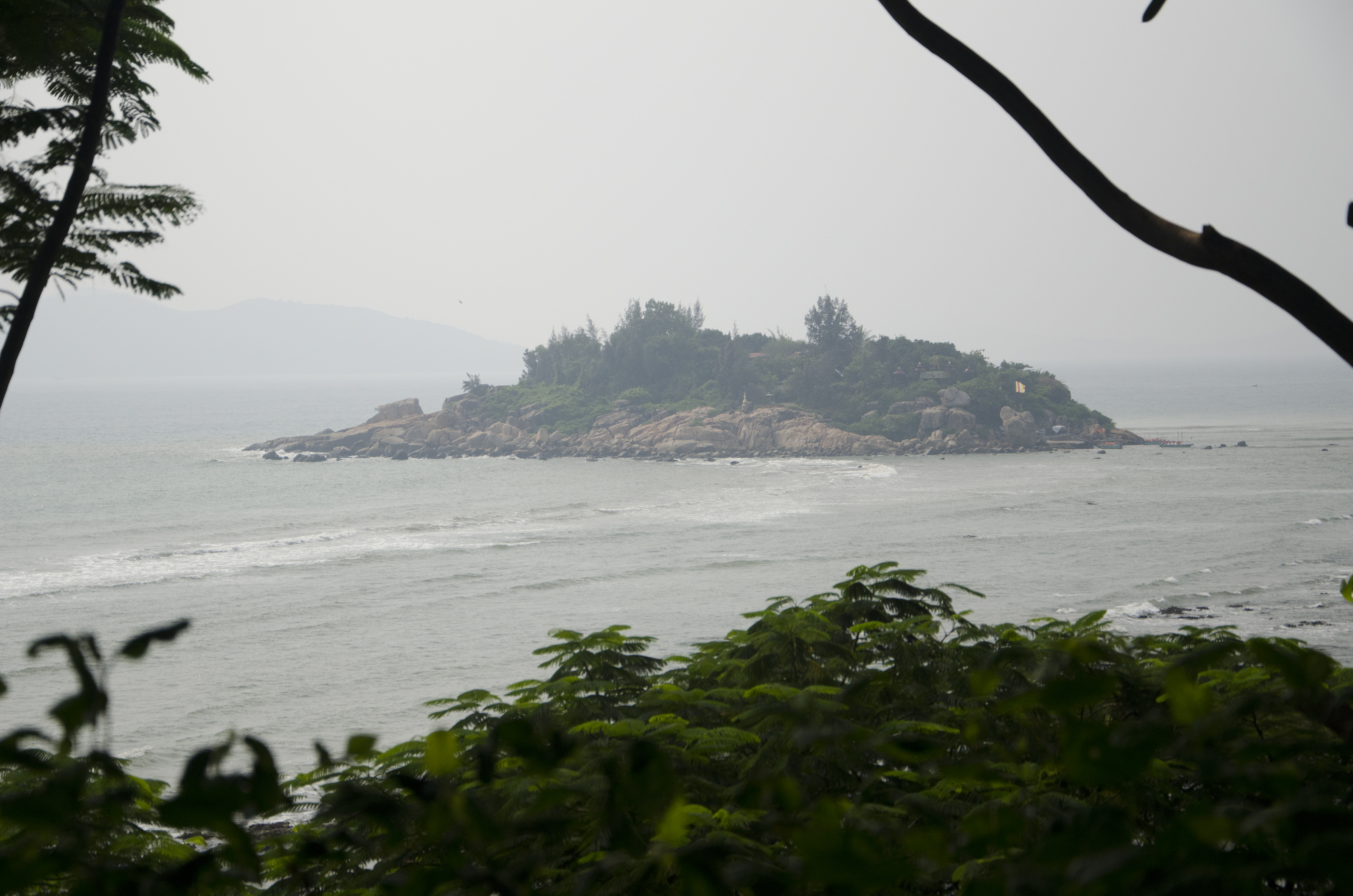 Đỏ Island - Nhatrang - Vietnam